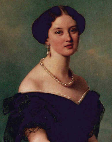 Grand Duchess Adelheid-Marie of Luxembourg (nee Princess of Anhalt-Dessau) as a young woman